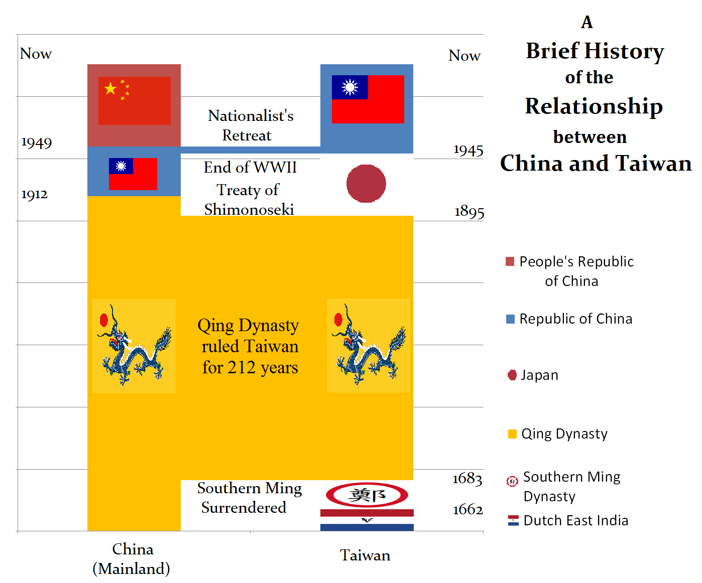 The brief history of Cross-strait relationship.